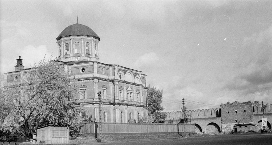 Church of the Epiphany at the Kremlin (Tula, Russia)